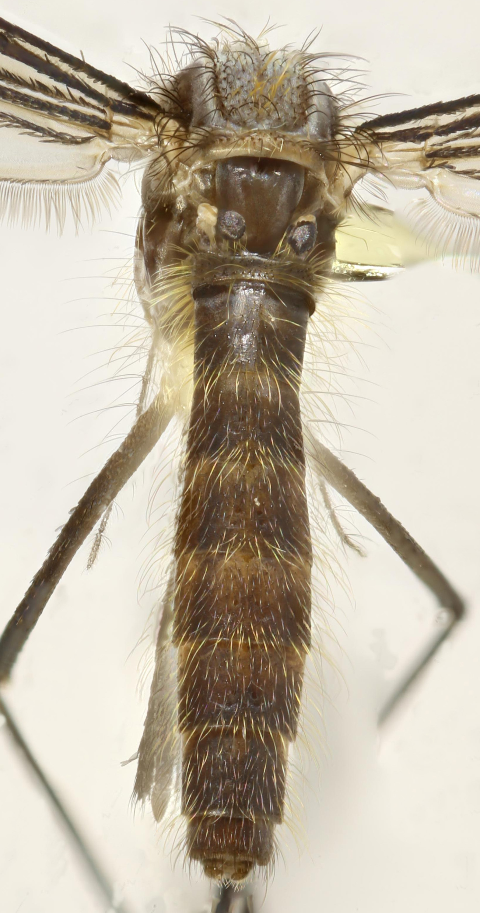 Anopheles plumbeus, near Harlech, North Wales, Aug 2016 2